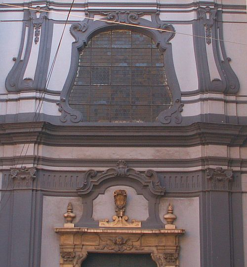 Private photo taken and uploaded by user Jeffmatt 05:50, 8 October 2006 (UTC). No rights claimed.